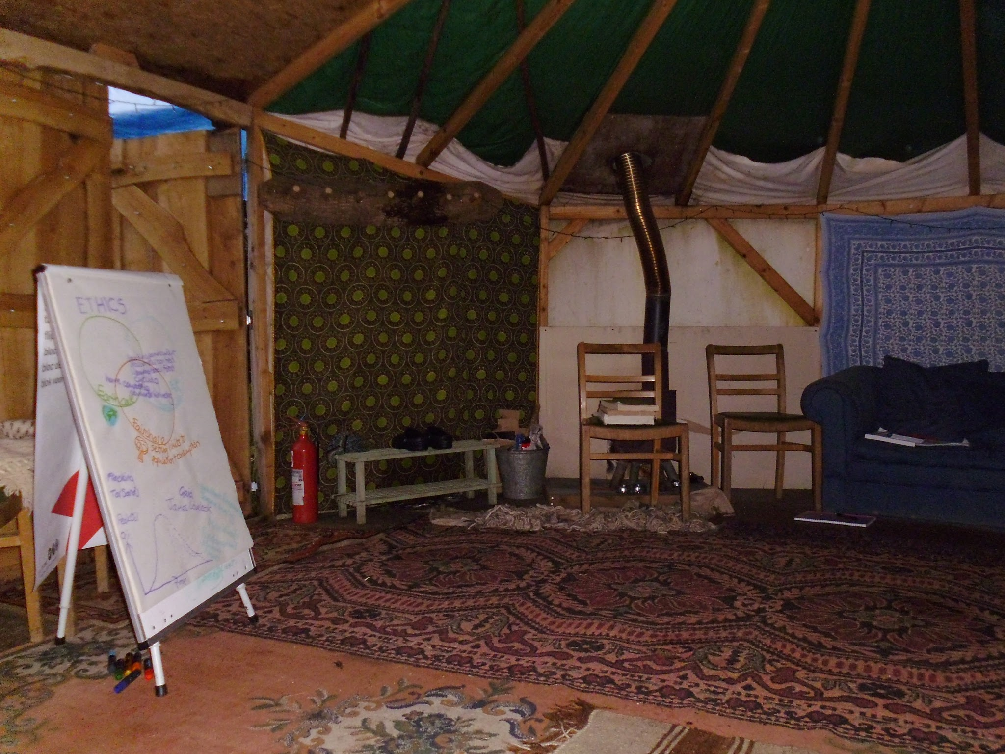 Using the yurt as a classroom during the 2014 PDC